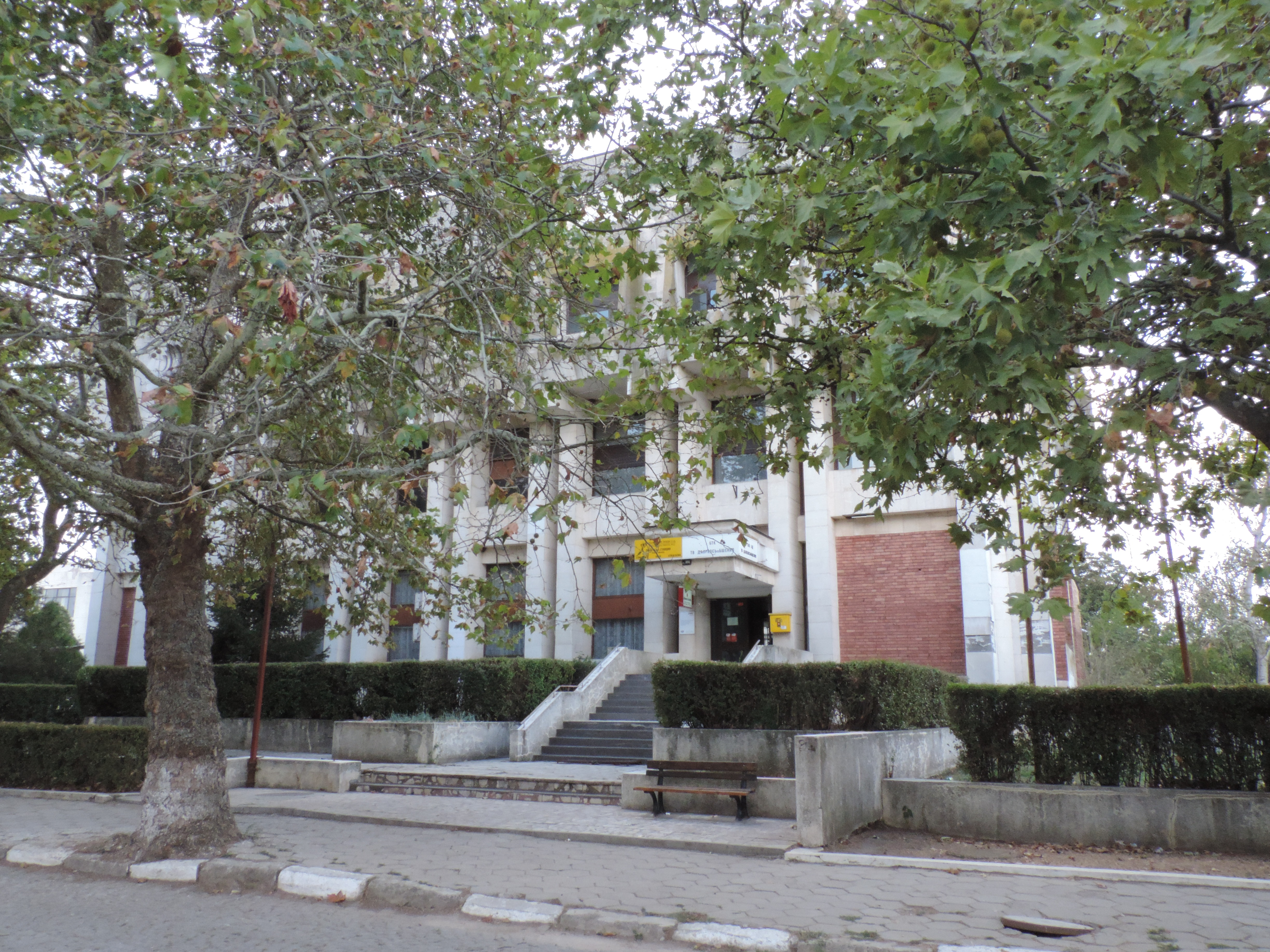 The post office in Straldzha, Yambol Province, Bulgaria